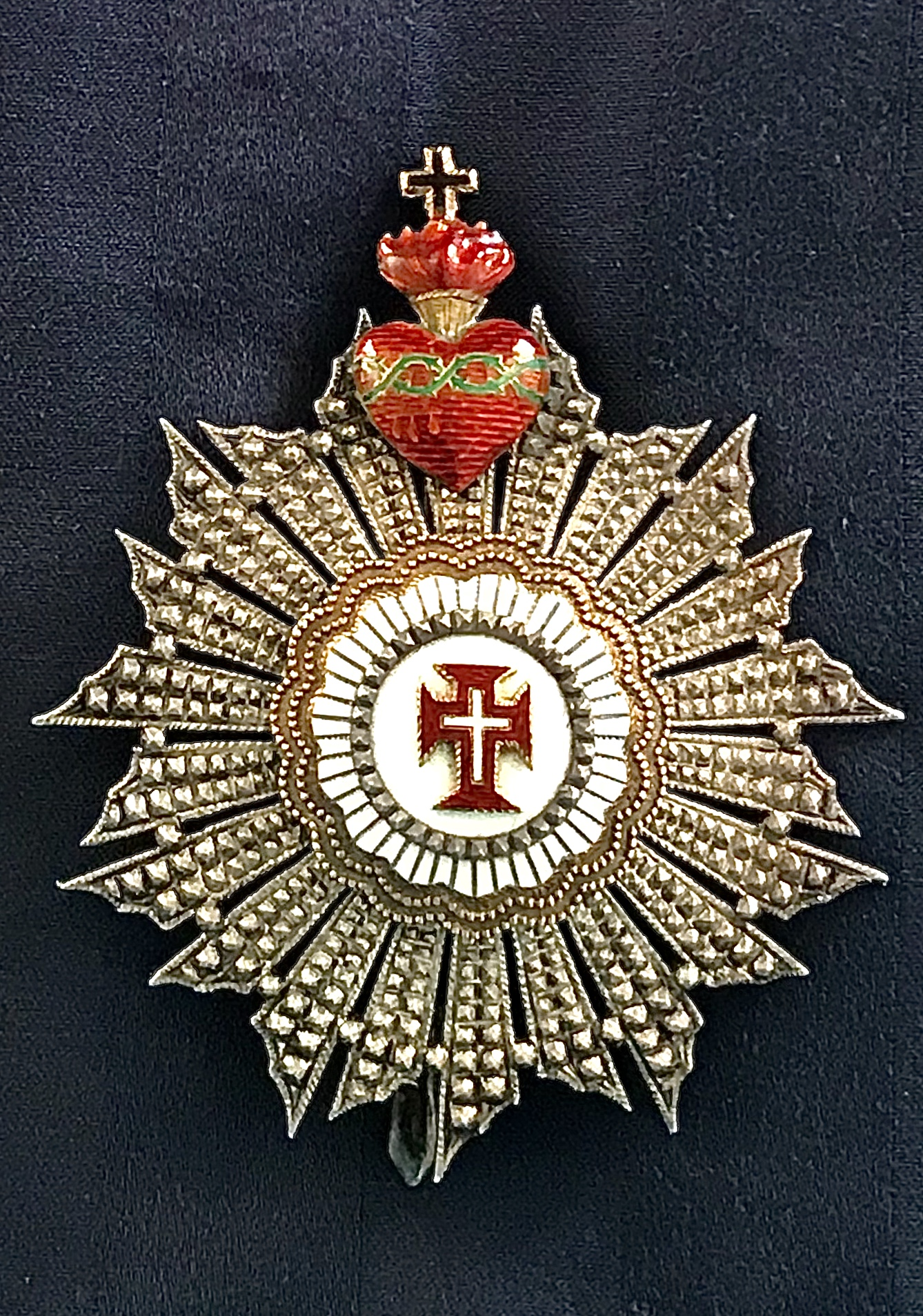 Grand Cross star of the Imperial Order of Christ (Brazil, c.1860)